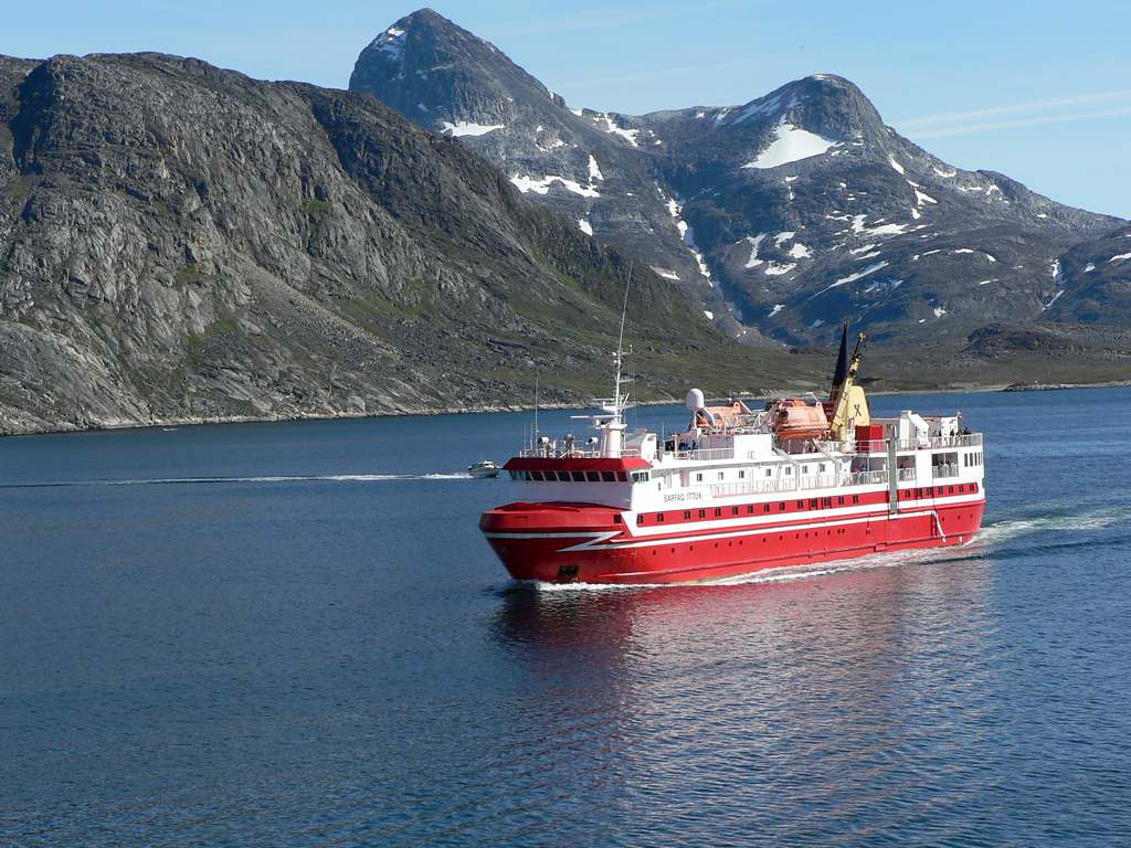 Twice a week the 249-passenger ferry M/S Sarfaq Ittuk plies 1,330 kilometers along the west coast of Greenland from Ilulissat in the north to Qaqortoq in the south.